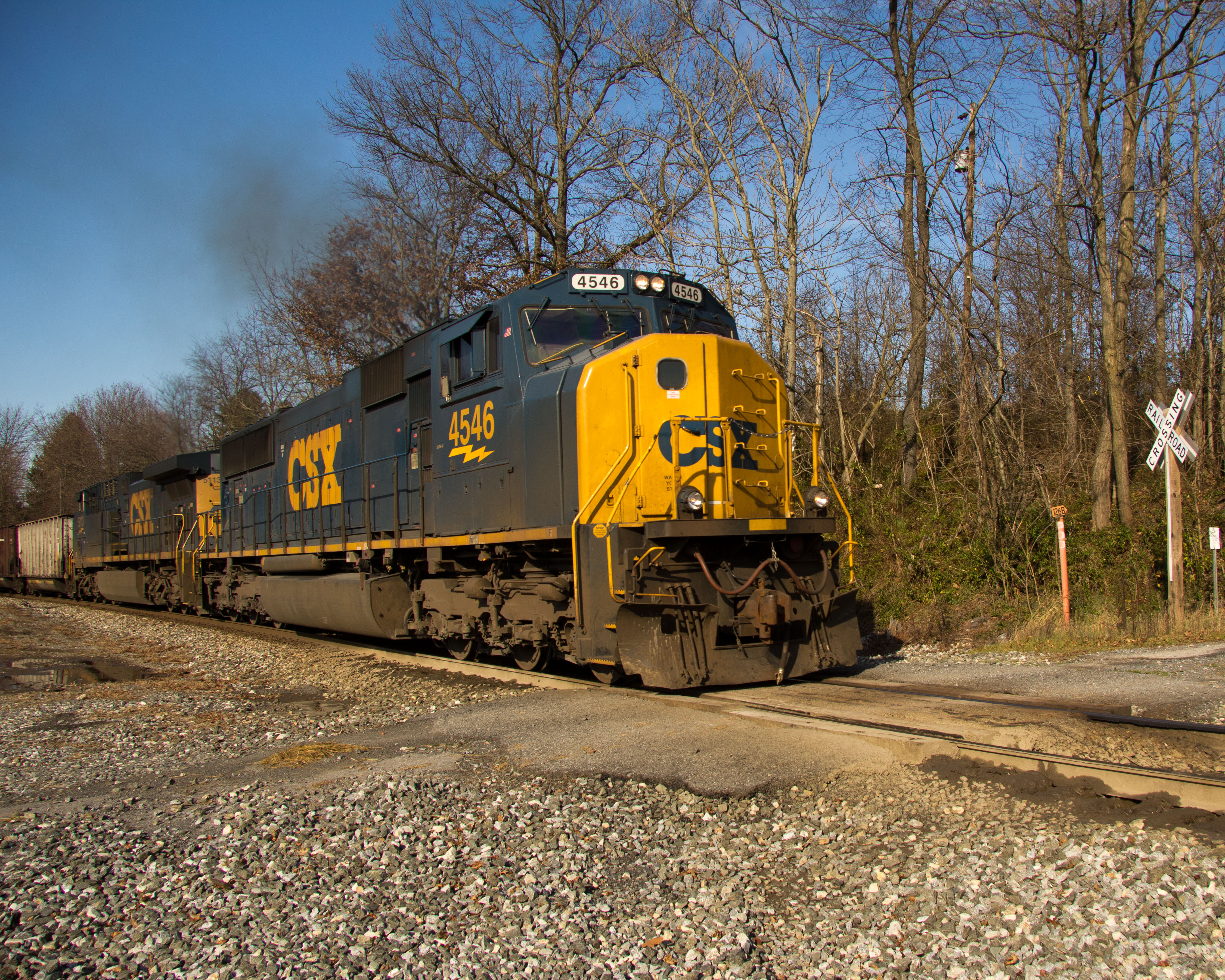 CSX engine 4546 (an EMD SD70MAC) whines loudly as it leads a long loaded coal train up the grade in Monrovia, MD. Assisting is engine 5113 (a GE CW44AH). The train is on the B&O Old Main Line (OML), which runs from Point of Rocks, MD to Baltimore. The OML is the route of the first commercial railroad in the United States as it pushed west from Baltimore, MD to the Ohio River. It was constructed largely by hand between 1828 and 1835.